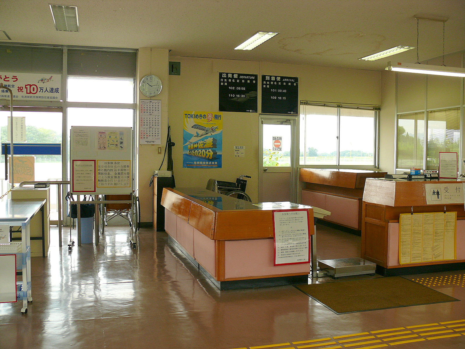 Sado Airport Interior(Japan).